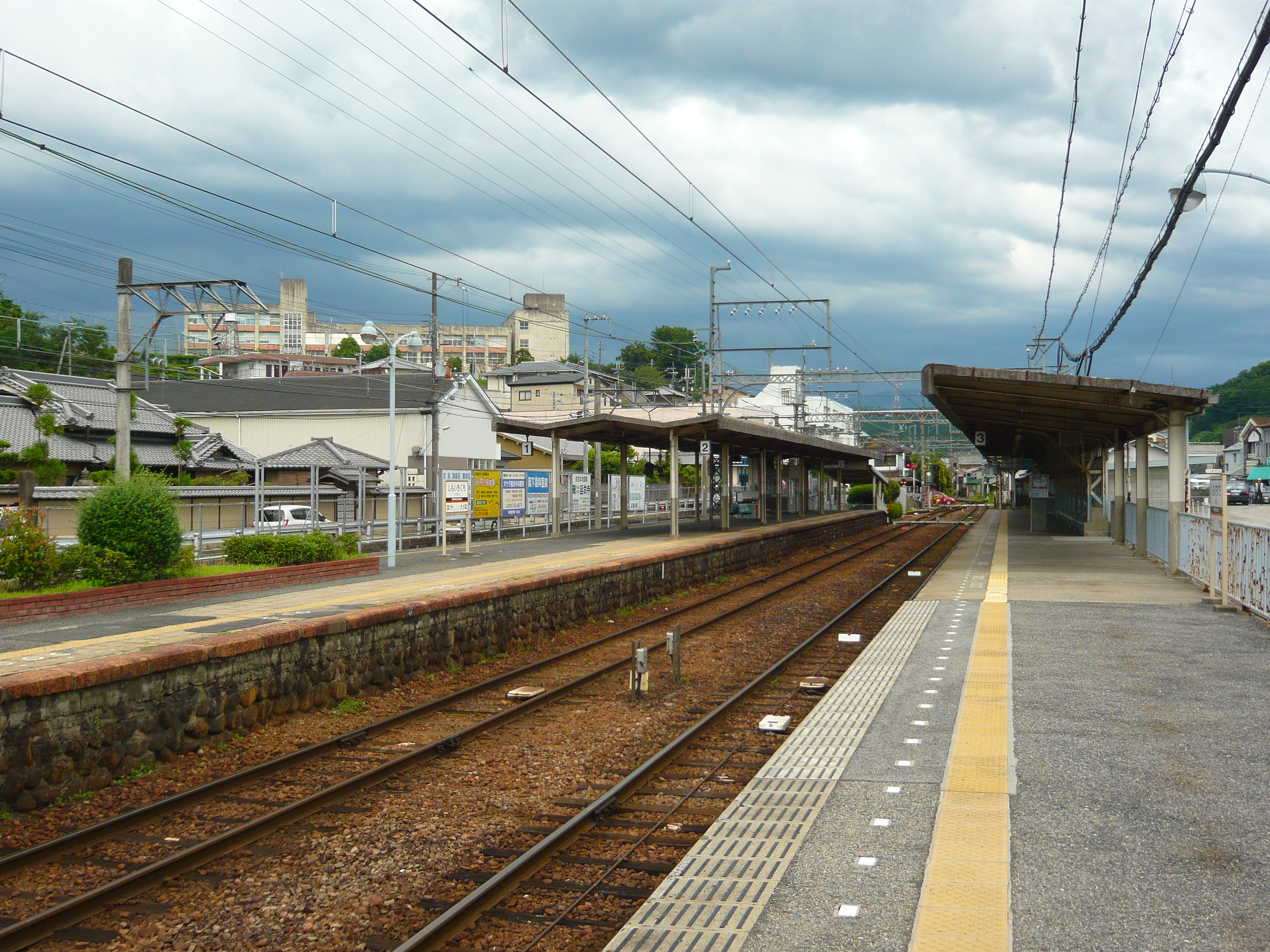 近鉄吉野線 下市口駅 Shimoichiguchi station